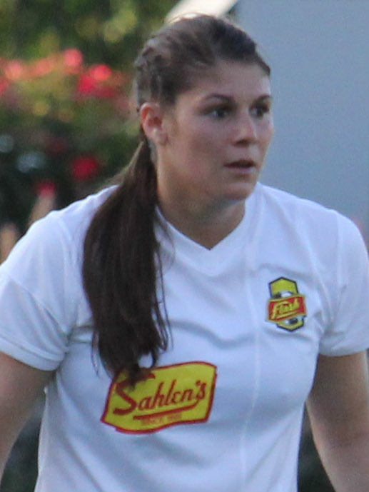 Brittany Taylor (Western New York Flash)